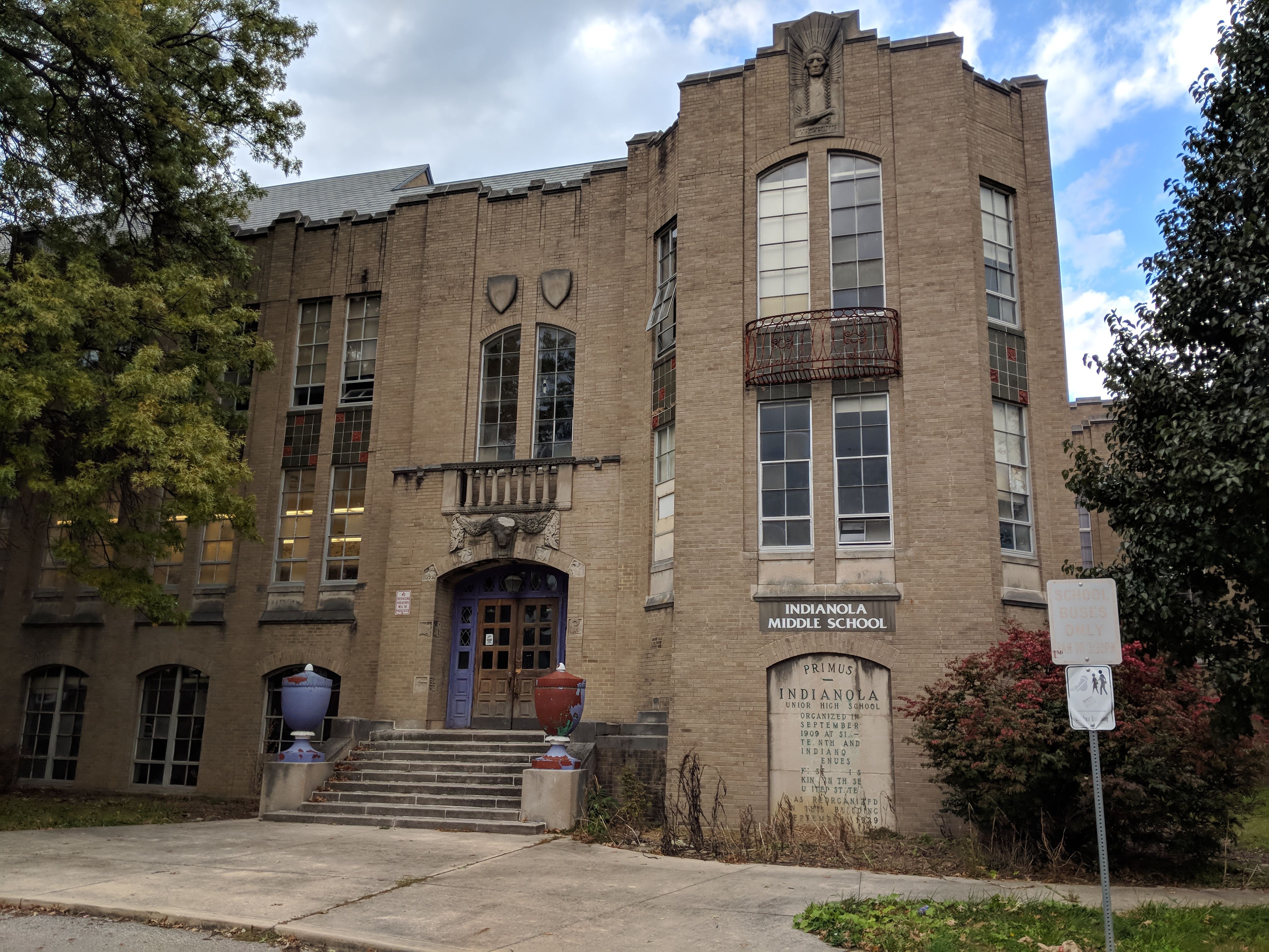 Indianola Junior High School listed on the National Register of Historic Places (#80003000)